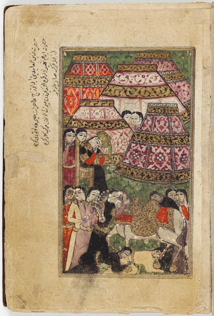 Garden of the Blessed. The poisoning of Hasan.